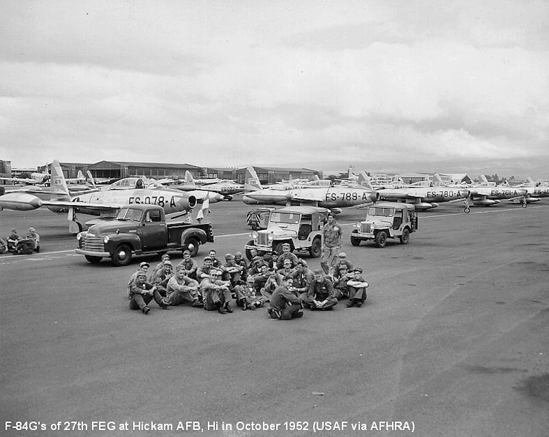 U.S. Air Force Republic F-84G Thunderjet fighters from the 27th Fighter-Escort Group F-84G at Hickam Air Force Base, Hawaii (USA), in October 1952.